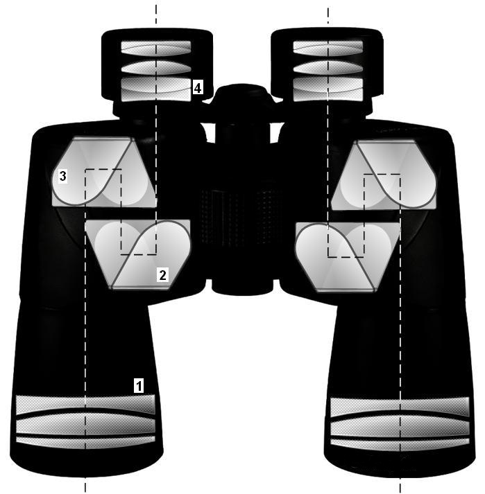 Porro prism binocular.